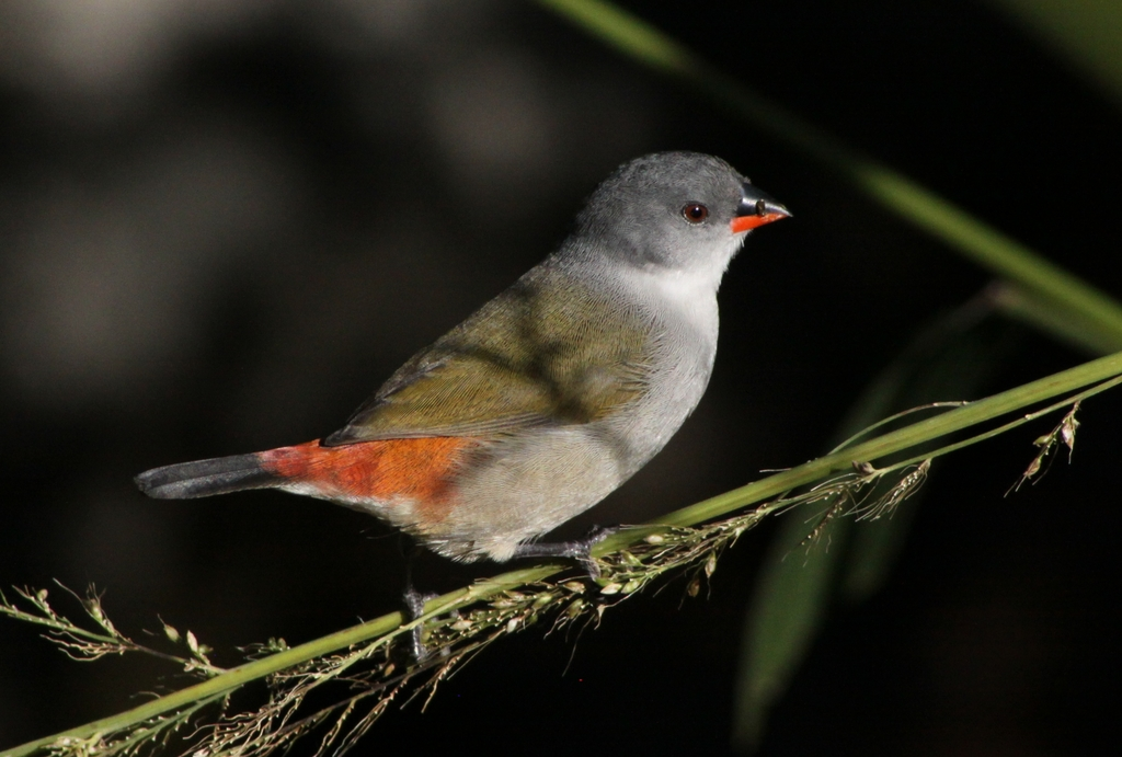 Swee waxbill (Estrilda melanotis) - part of series